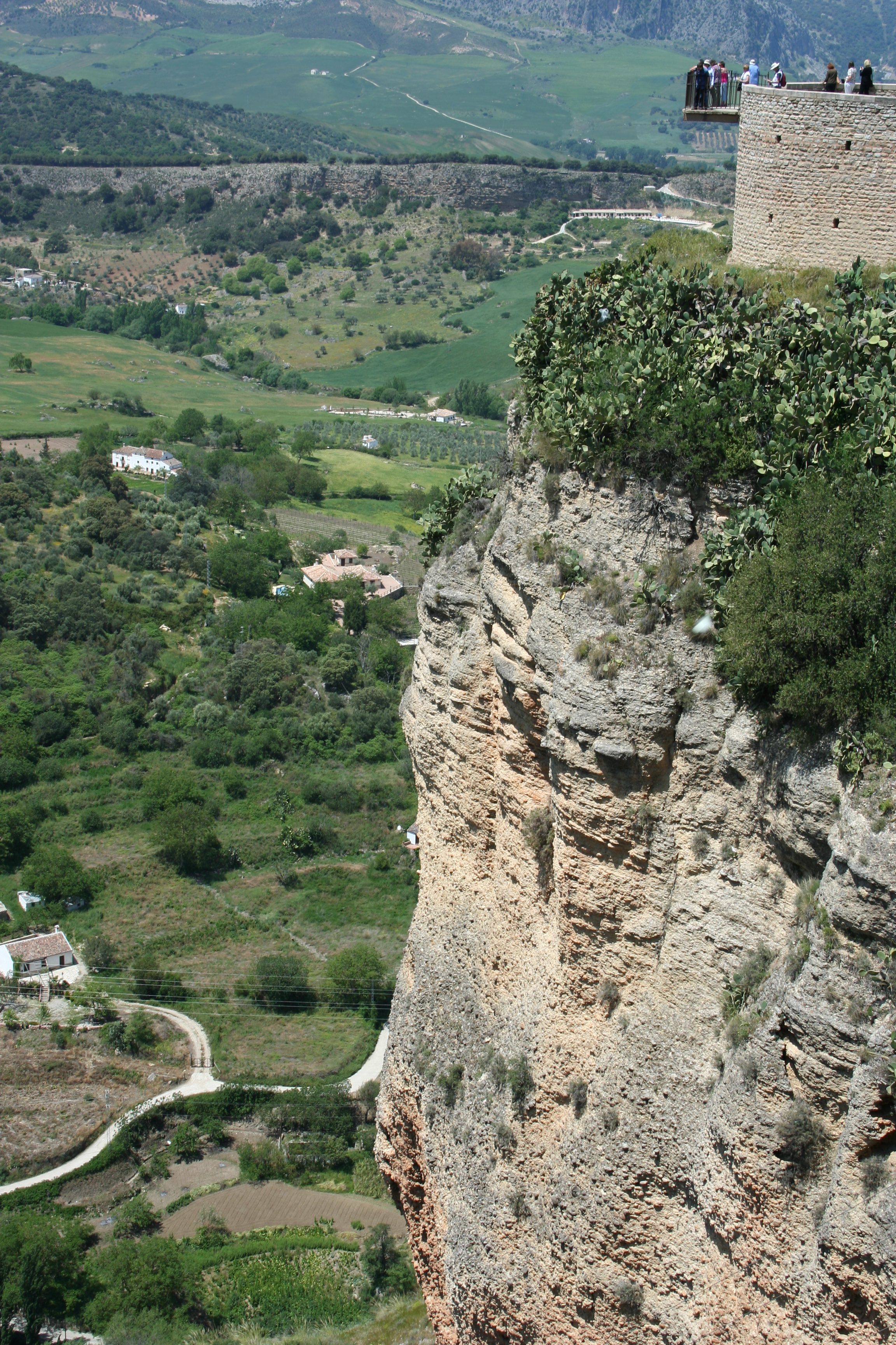 Viewing platform at Ronda, Spain